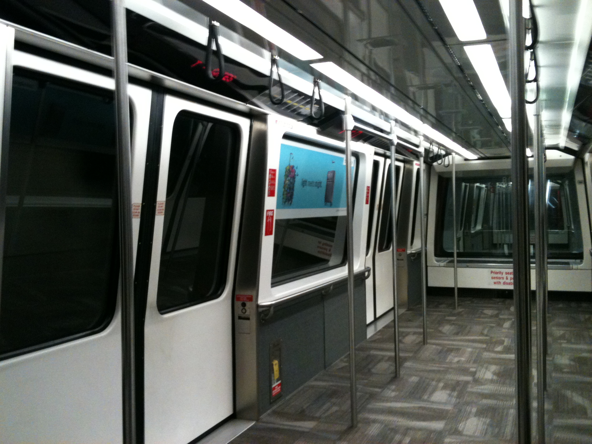 Interior of the PlaneTrain at ATL